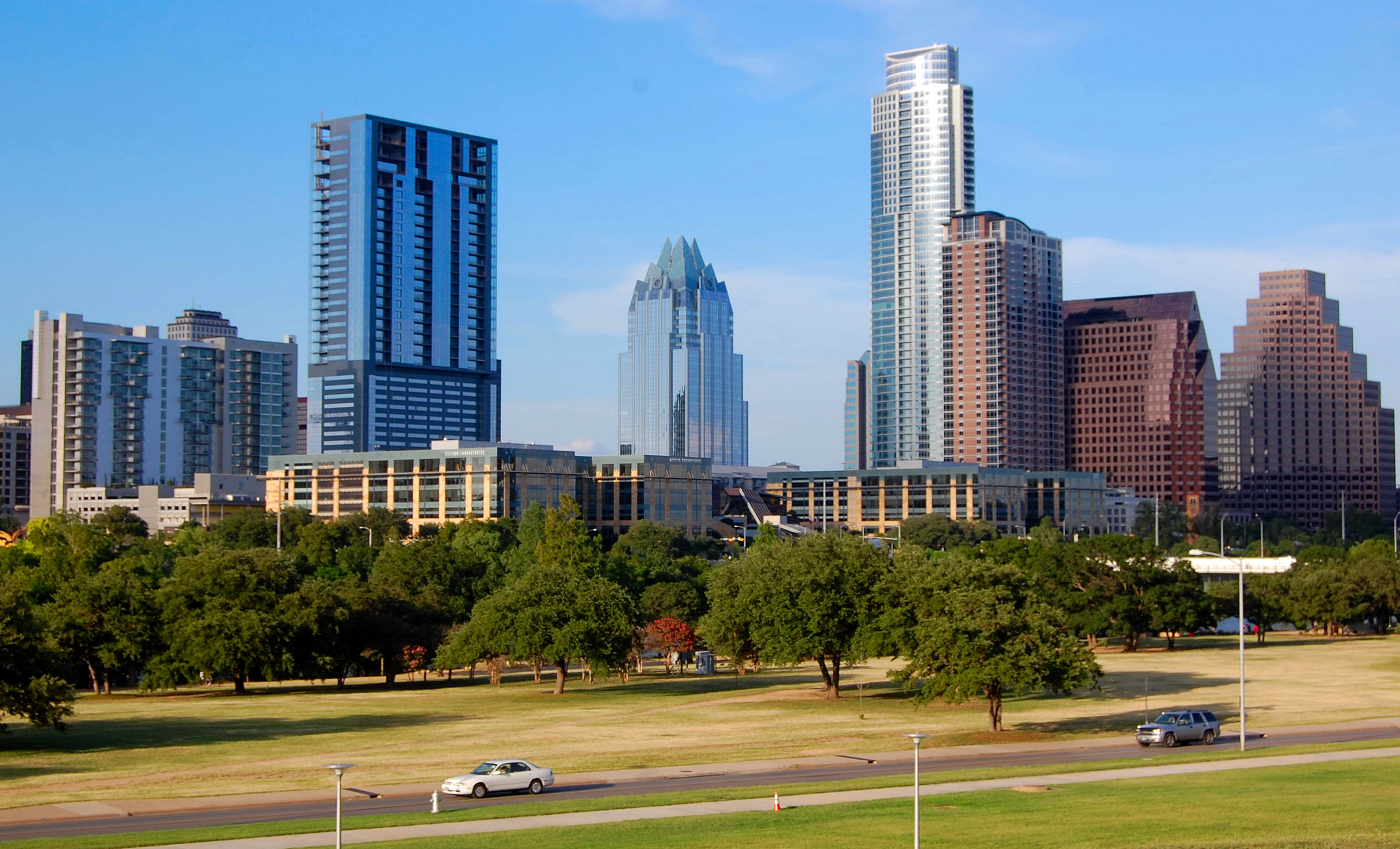 Austin Skyline from Butler Park